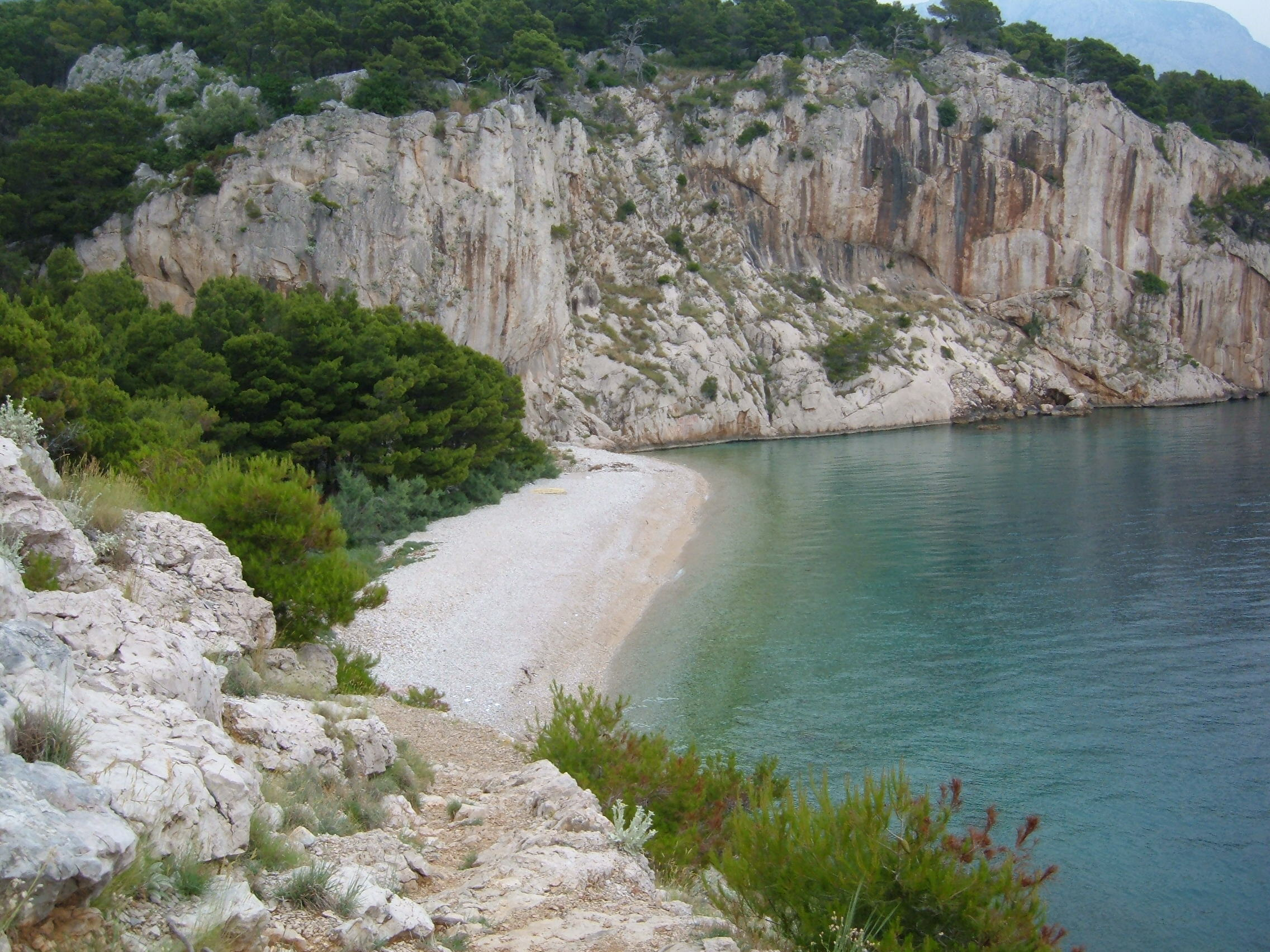 Nugal nudist beach, Makarska/Tucepi, Croatia